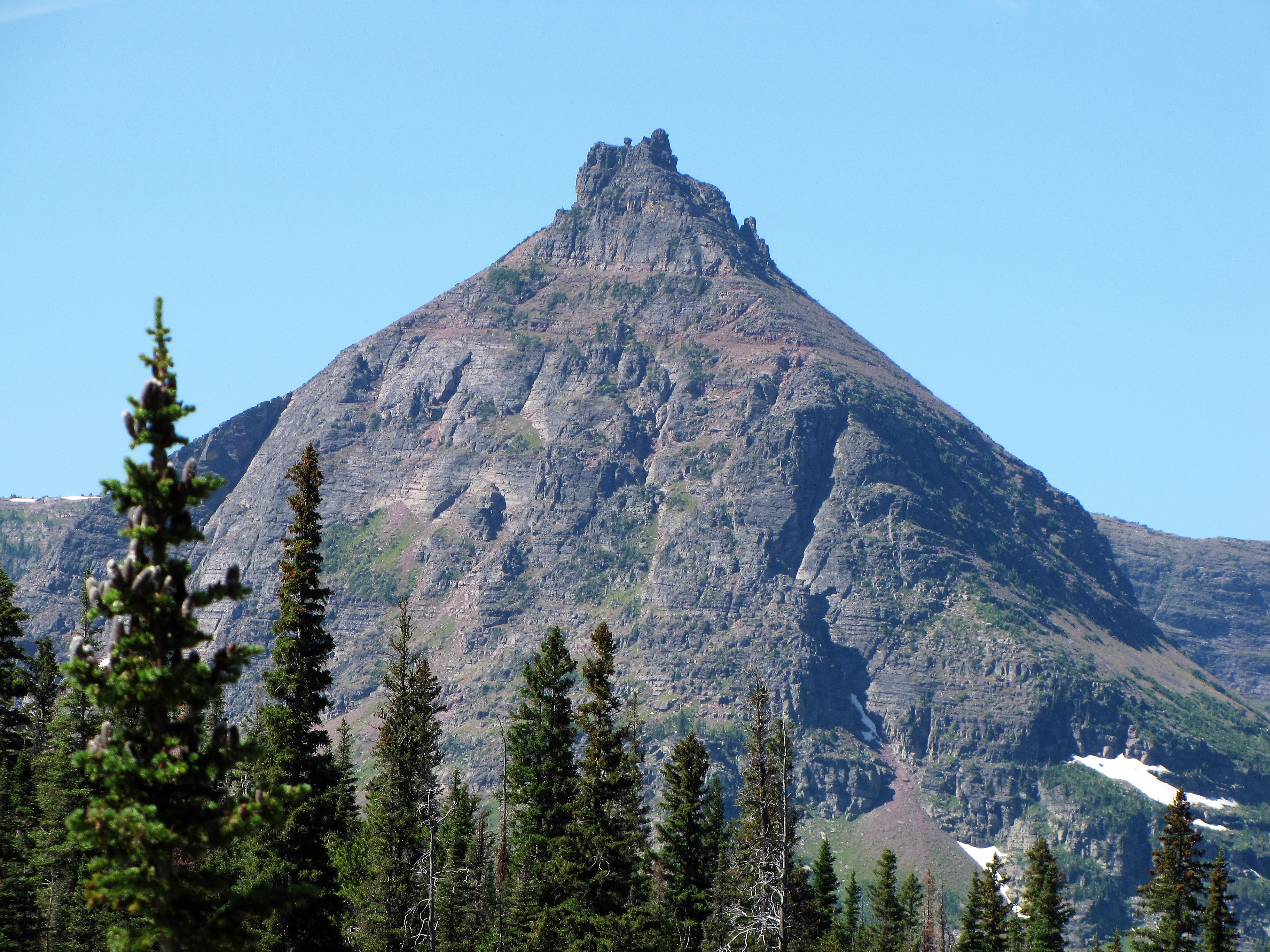 Painted Tepee in Two Medicine region of Glacier National Park.